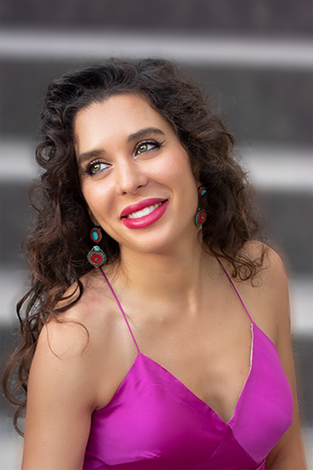 The french concert pianist Stéphanie Elbaz- 2018